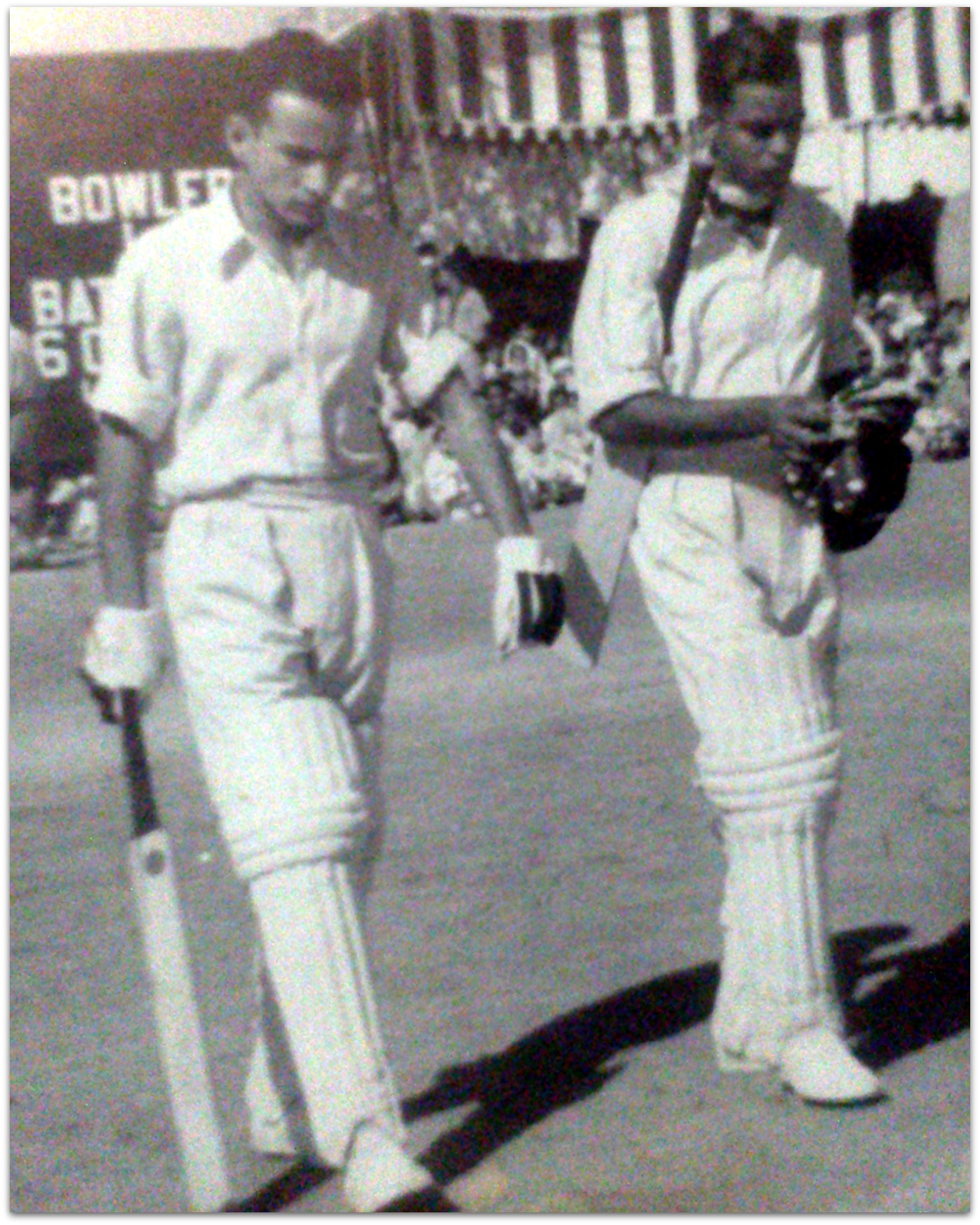 On the right Maqsood Ahmed and next to him Imtiaz Ahmad